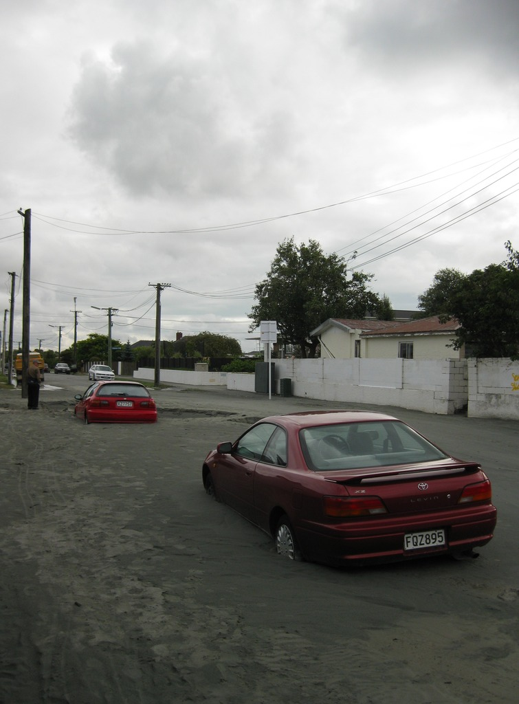 St Andrews College, Papanui Road. Liquefaction, causing water and silt to squirt up from underground.